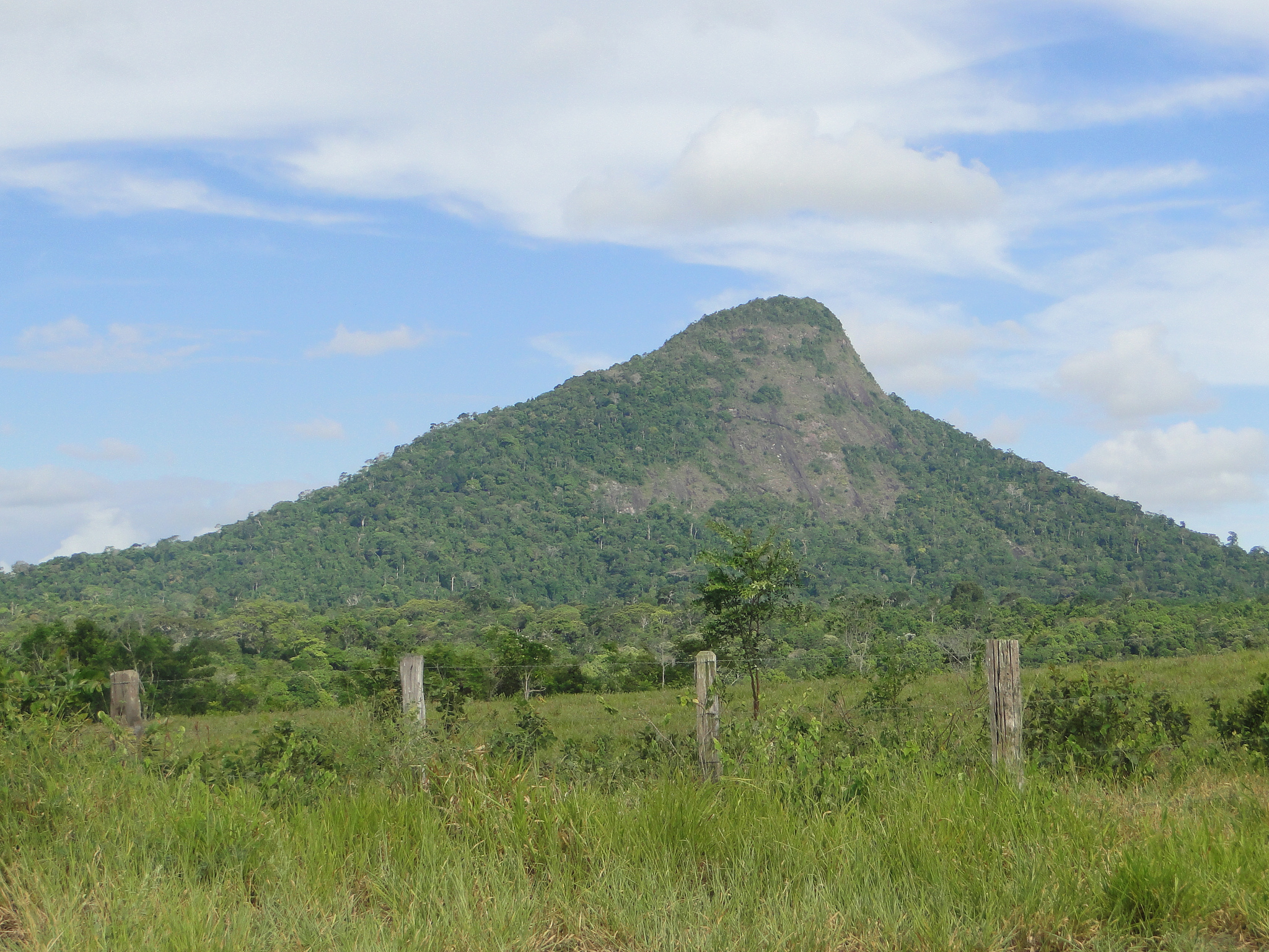 Monte Pascoal elevation.